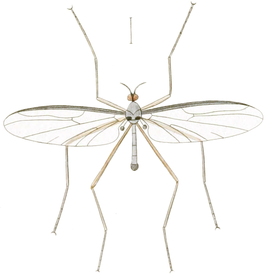 Blepharicera fasciata (Westwood 1842) described as Blepharicera limbipennis Macquart 1843.